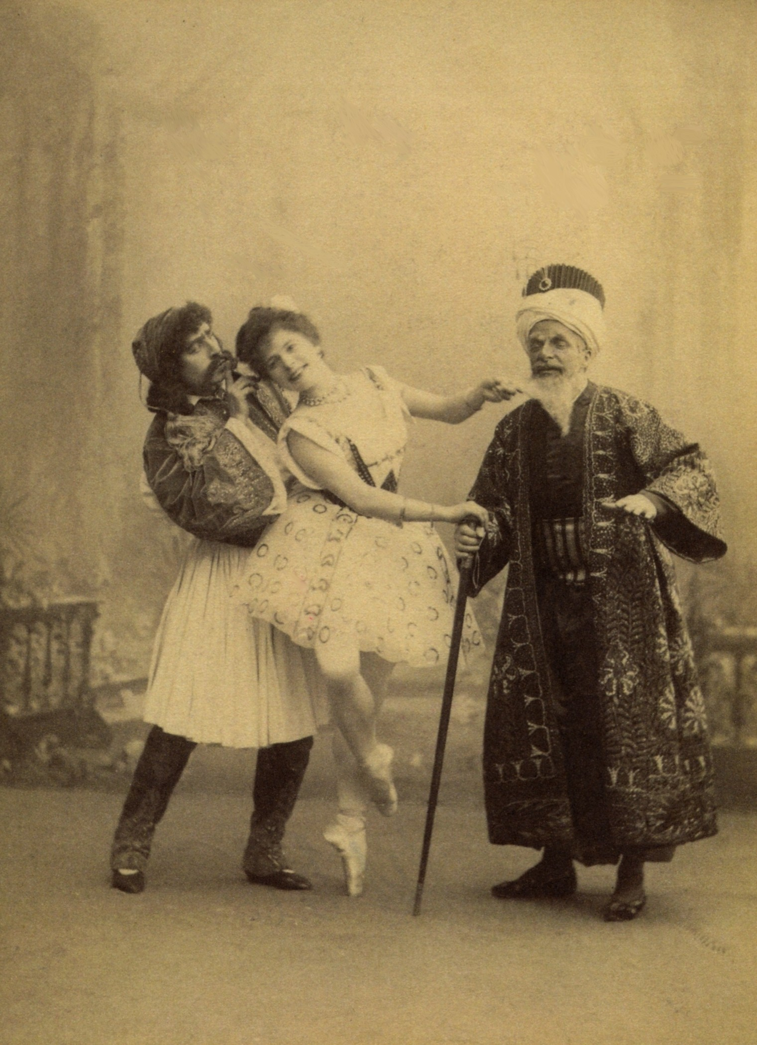 Photo of (left to right) Pavel Gerdt as Conrad, Pierina Legnani as Medora and Alfred Bekefi as the Seïd Pasha in the scene La cérémonie du mariage from act III of the ballet "Le Corsaire".